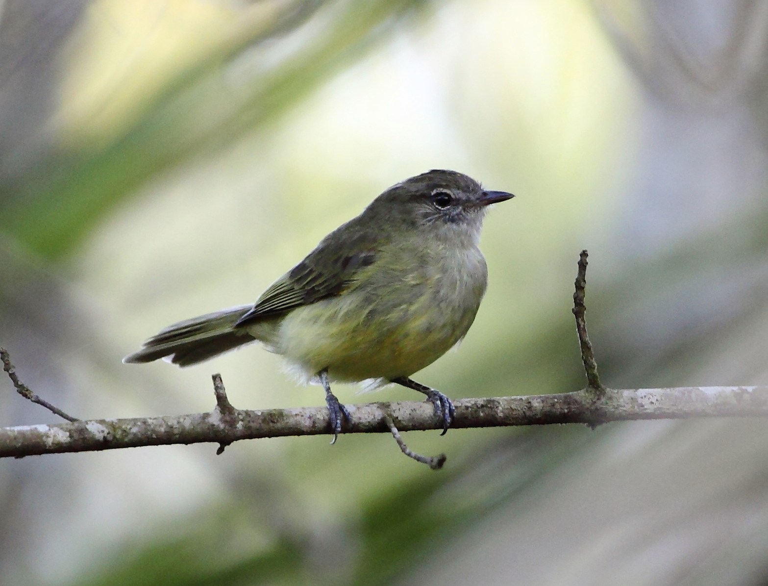 Greenish elaenia at Dourado - SP - Brazil